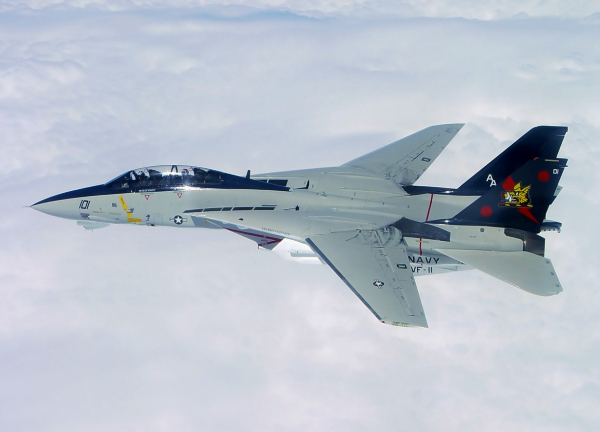 A top port view of an F-14B Tomcat from VF-11 Red Rippers in 2005.